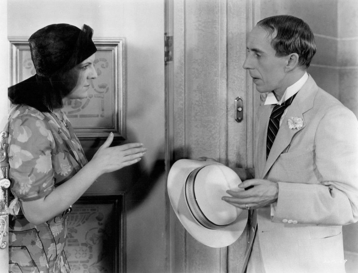 Photo of Winnie Lightner and Charles Butterworth in a scene from the 1930 film The Life of the Party.